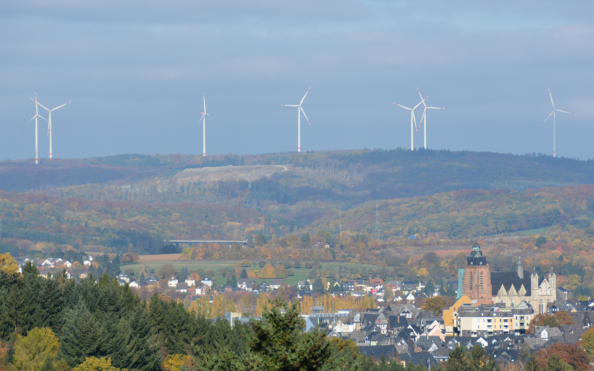 The Hohenahr Windfarm as seen from the south (from the town of Wetzlar). To the right you can see the Wetzlar Cathedral (Dom) surrounded by the ancient town. At the foot of the Windfarm you can see the Autobahn 45 (A45) called the Sauerlandlinie.